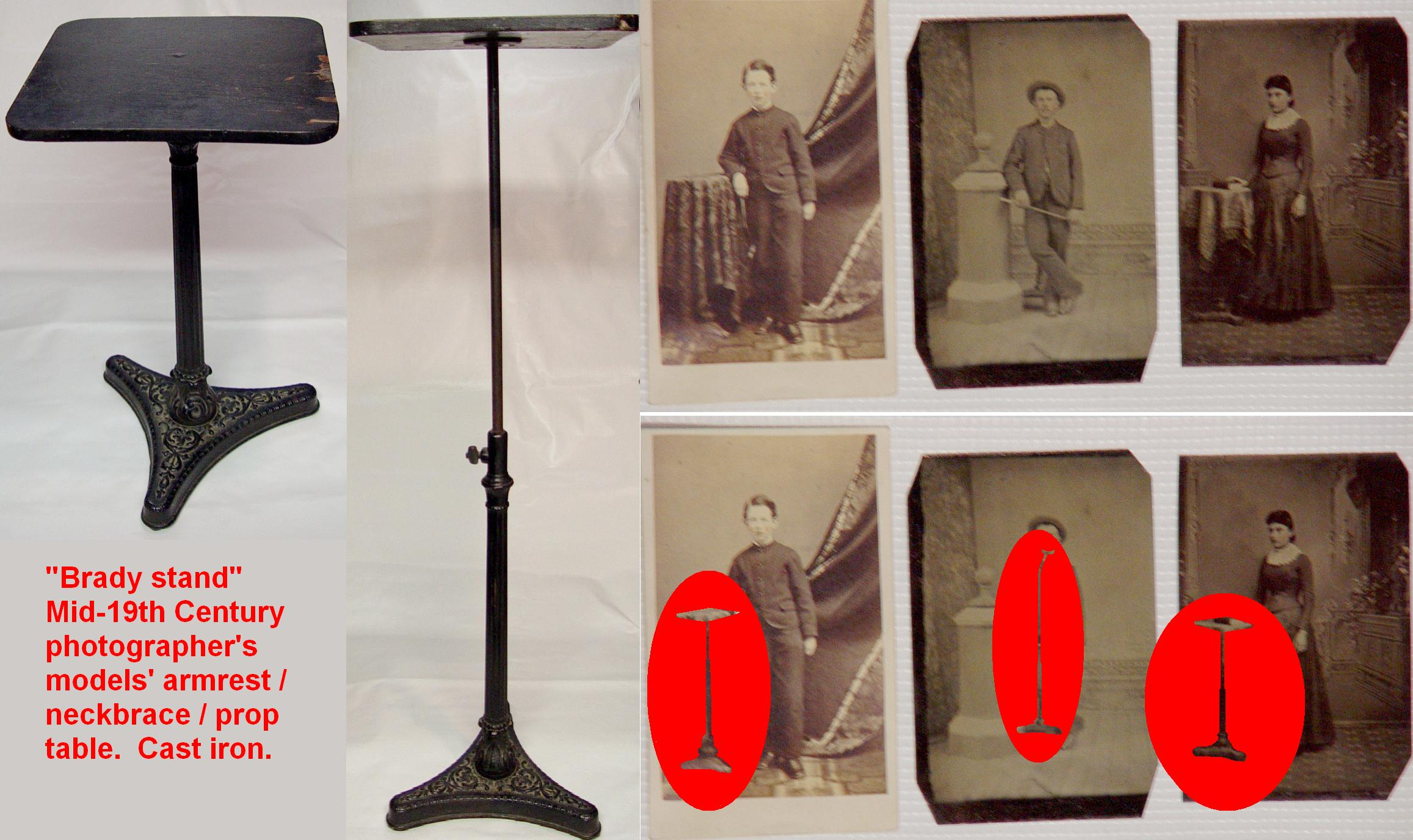 Cast iron "Brady stand" side table. As perhaps the best-known US photographer in the 19th century, it was Mathew Brady's name that came to be attached to the era's heavy specialized end tables which were factory-made specifically for use by portrait photographers. Such a "Brady stand" of the mid-19th century typically had a weighty cast iron base for stability, plus an adjustable-height single-column pipe leg for dual use as either a portrait model's armrest or (when fully extended and fitted with a brace attachment rather than the usual tabletop) as a neckrest.[1] The latter was often needed to keep models steady during the longer exposure times of early photography.[2] While Brady stand is a convenient term for these trade-specific articles of studio equipment, there is no proven connection between Brady himself and the Brady stand's invention circa 1855.[3] A Brady stand is clearly visible in use in context in the late 19th century period novelty photo of a "photographer photographing himself" see Commons image: Notes ↑ Macy, et al, "Macy Photographic Studio's Dispatch(, The)", Northampton MA, Spring-Summer 1913, pg 2 ↑ ibid., pg 3 ↑ ibid., pg 2